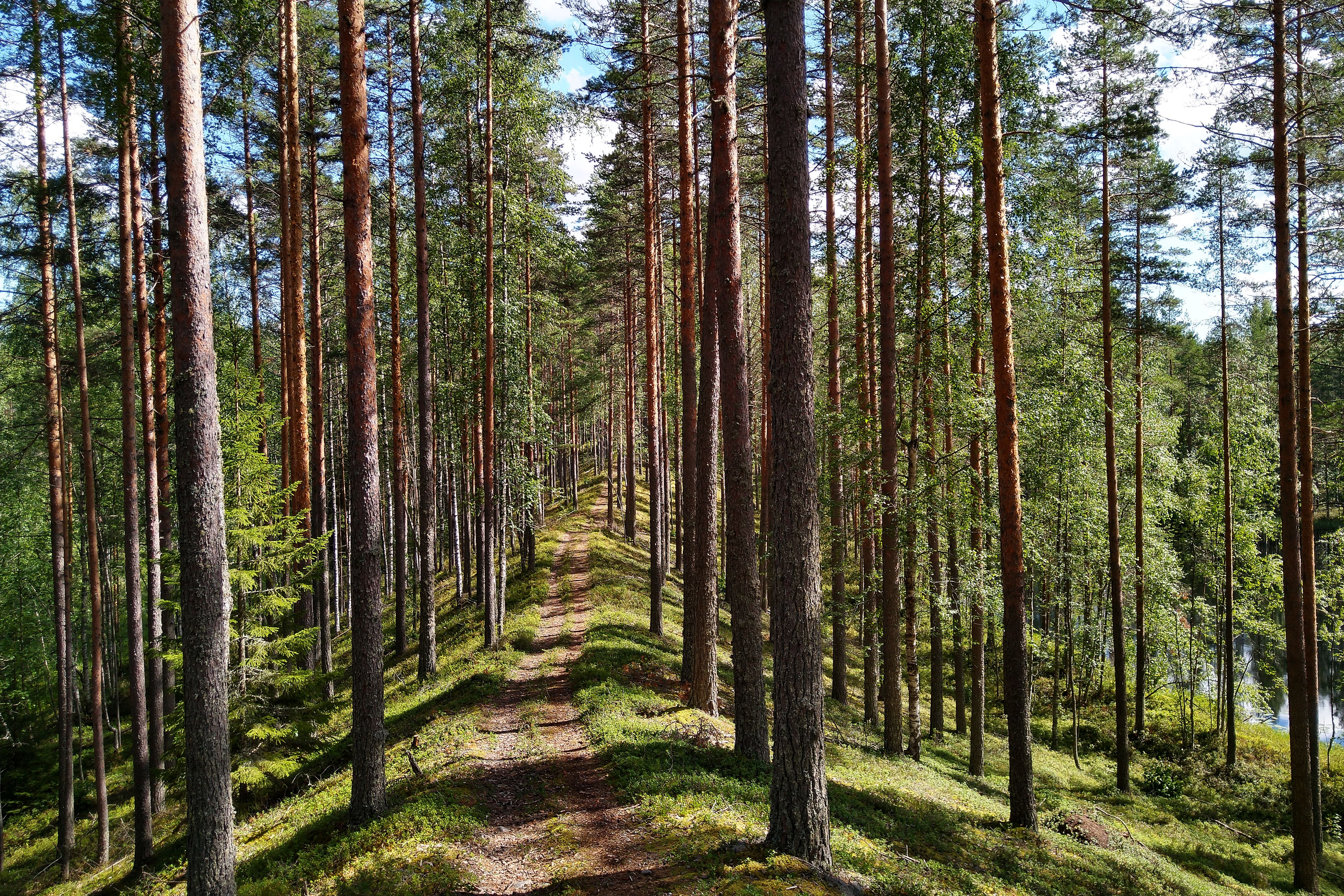 Post-glacial formations dominate the landscapes in Finnish Lakeland. Some lakes are separated by narrow eskers, one of them is pictured here.